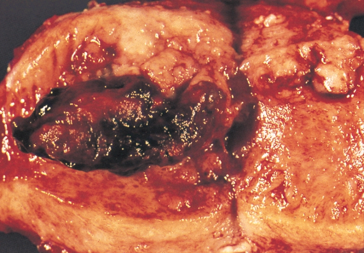 Obtained from the Pathology Information Educational Resource (PEIR) website ( PEIR Image# 402565. This image is labeled as a non-copyrighted image from a publication of the Armed Forces Institute of Pathology, a government agency.